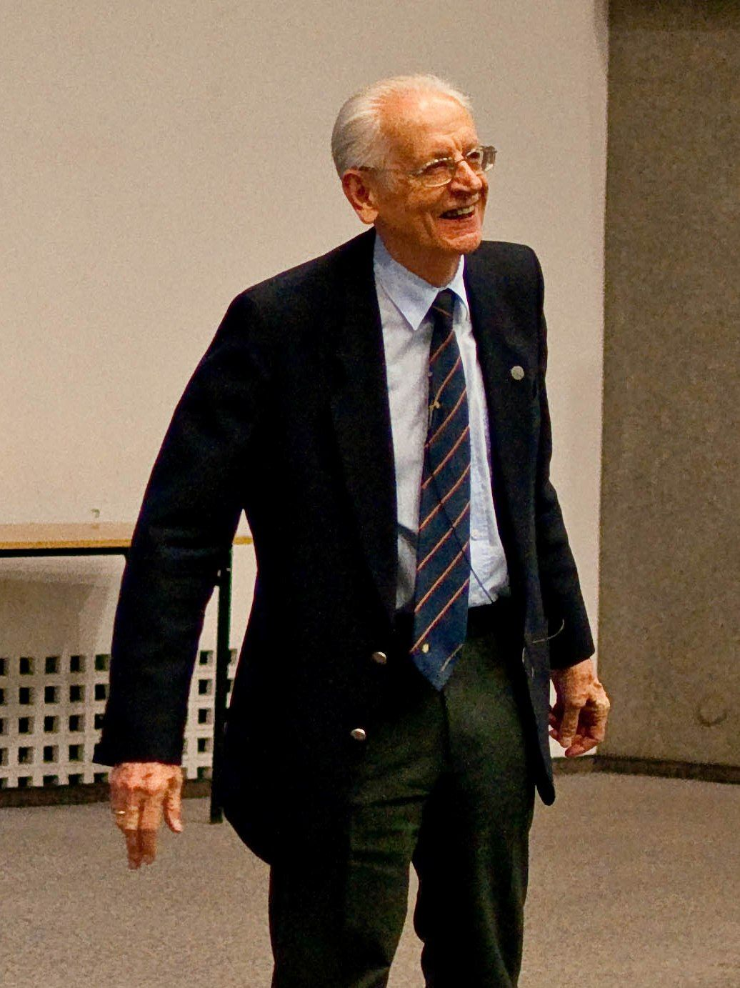 Photo of Andrzej Kajetan Wroblewski taken during the lecture at Silesian University of Technology on 12 May 2011.